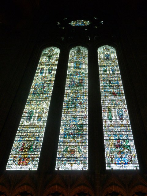 Photograph of a window in the Central Space of Liverpool Cathedral